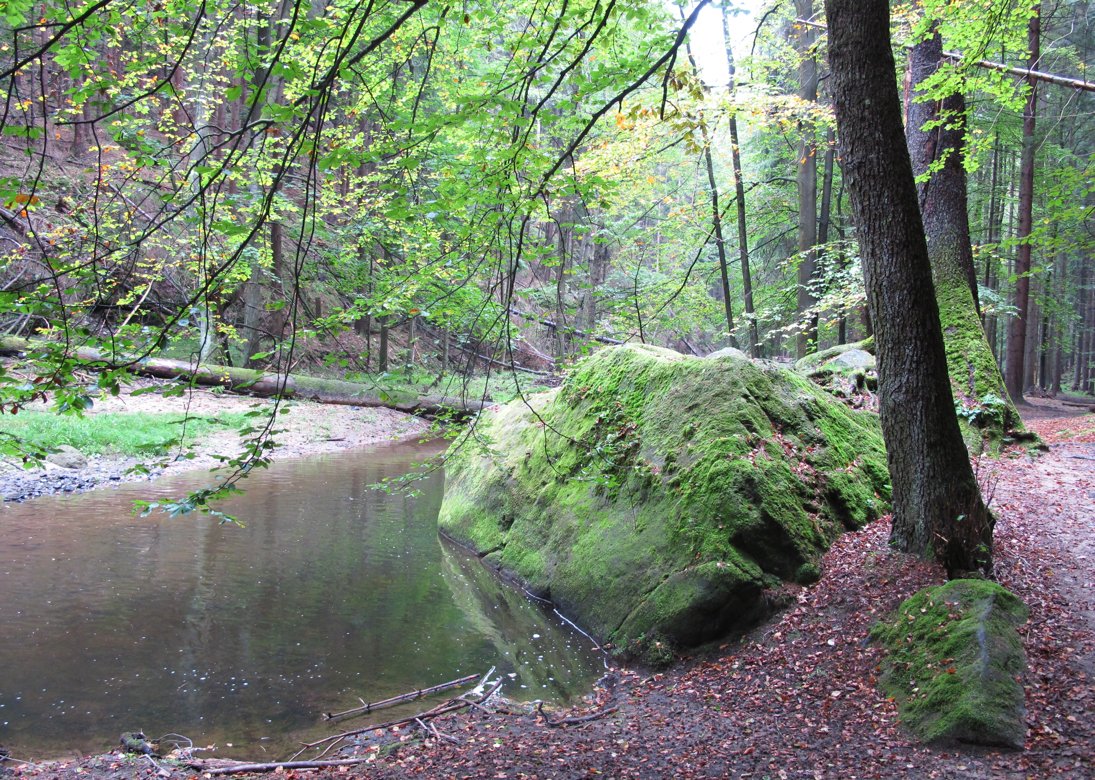 Chřibská Kamenice river in nature reserve Pavlínino údolí near Jetřichovice-Rynartice, Děčín District in Czech Republic